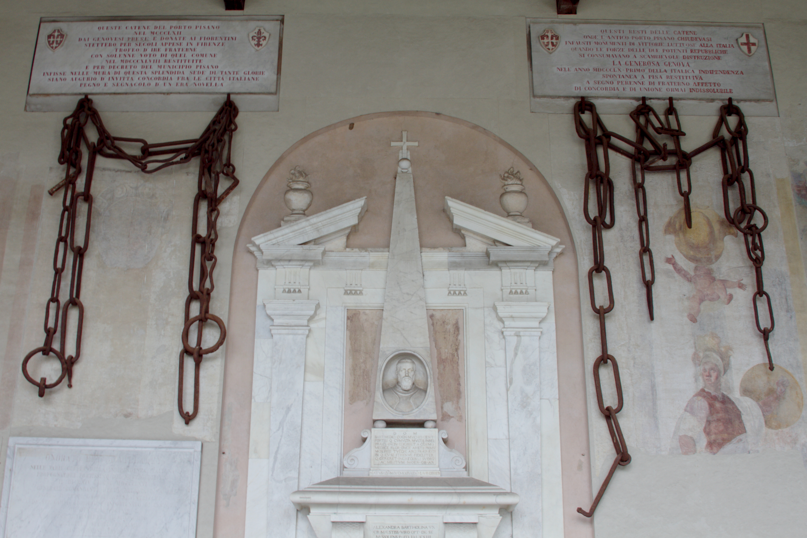 Camposanto - Pisa 2014